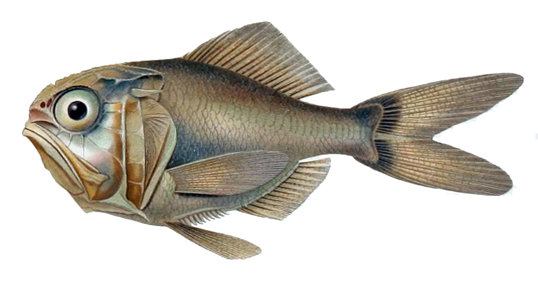 Hoplostethus mediterraneus